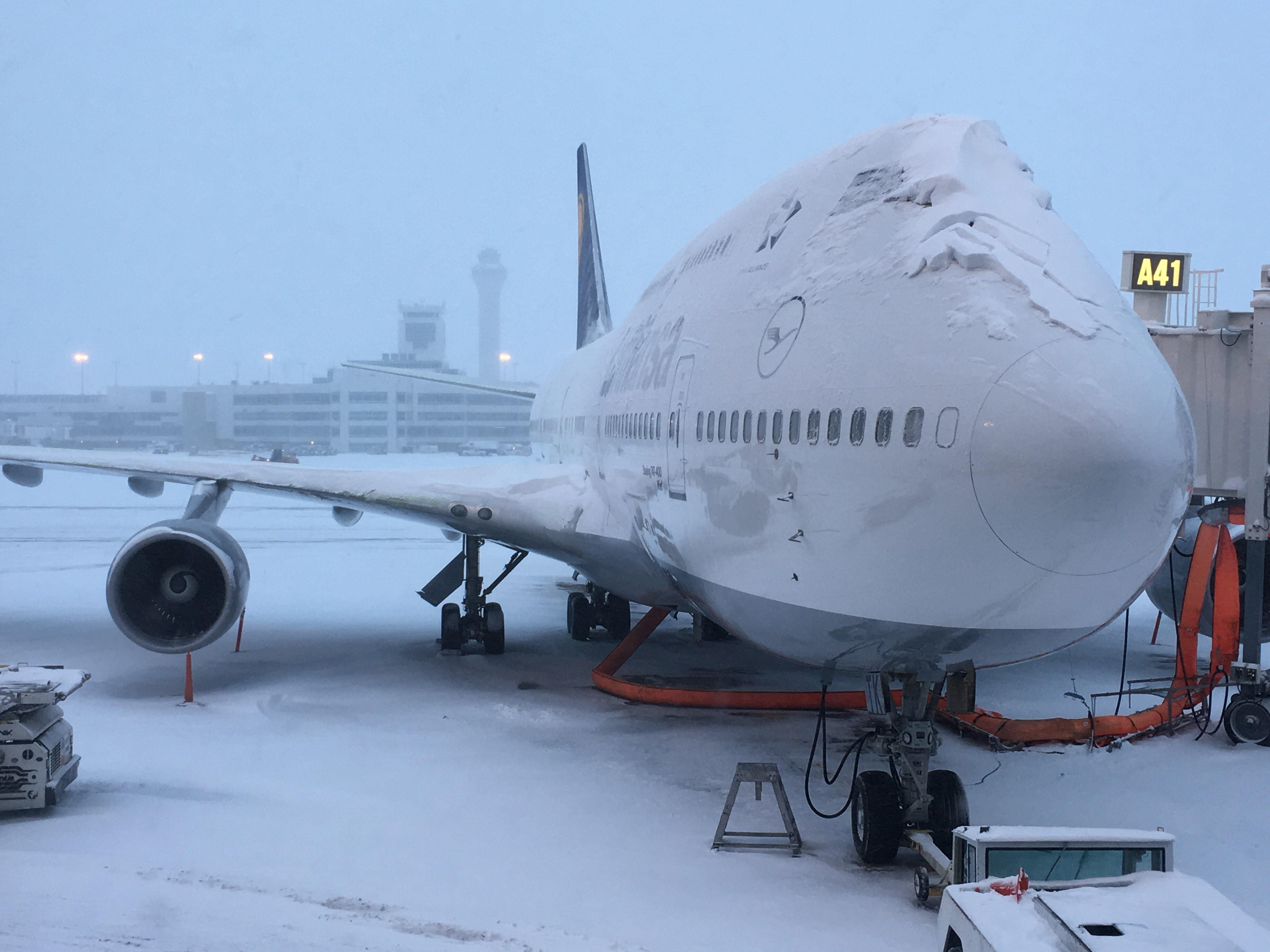 a Lufthansa plane sits at gate A41 in Denver on a snowy morning in February 2016